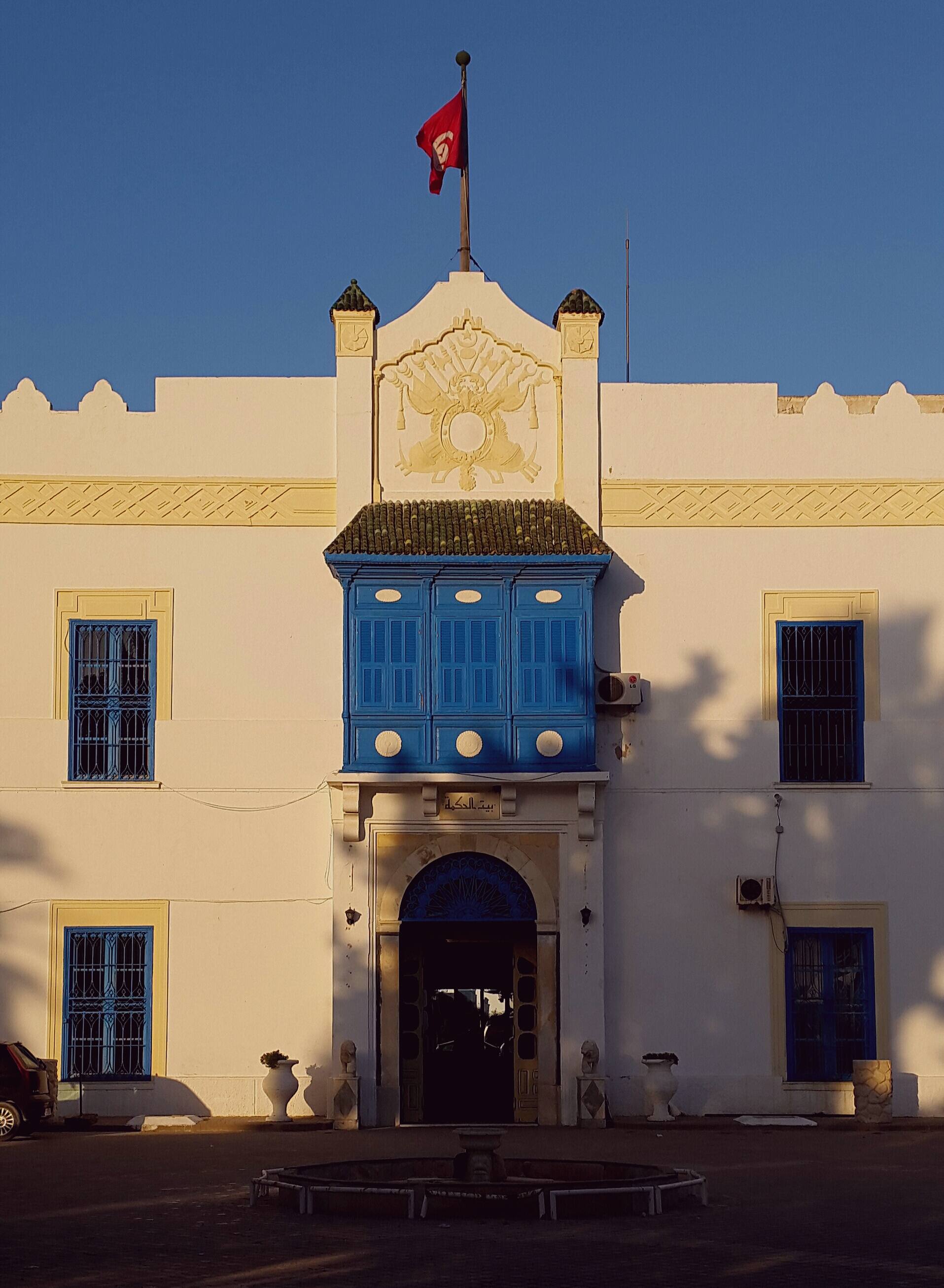 Beit El Hekma